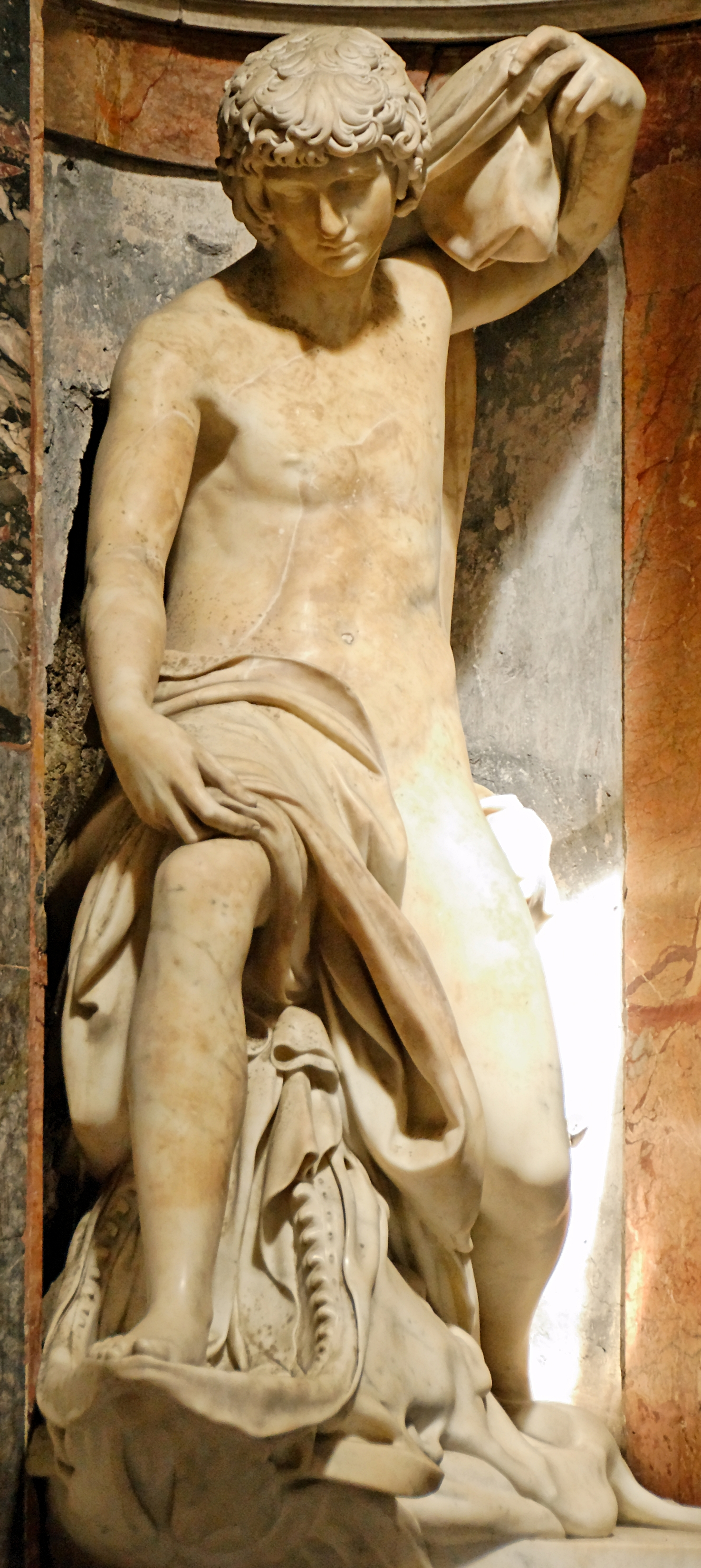 Jonah and the great fish, with the head of the Farnese Antinous. Marble, drawn by Raphael and executed by Lorenzetto (1522–27), Chigi Chapel of the Church Santa Maria del Popolo in Rome.